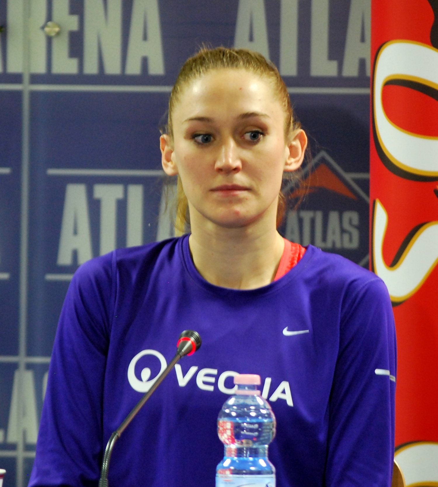 Kamila Lićwinko, high jumper from Poland, Pedro's Cup Łódź 2016